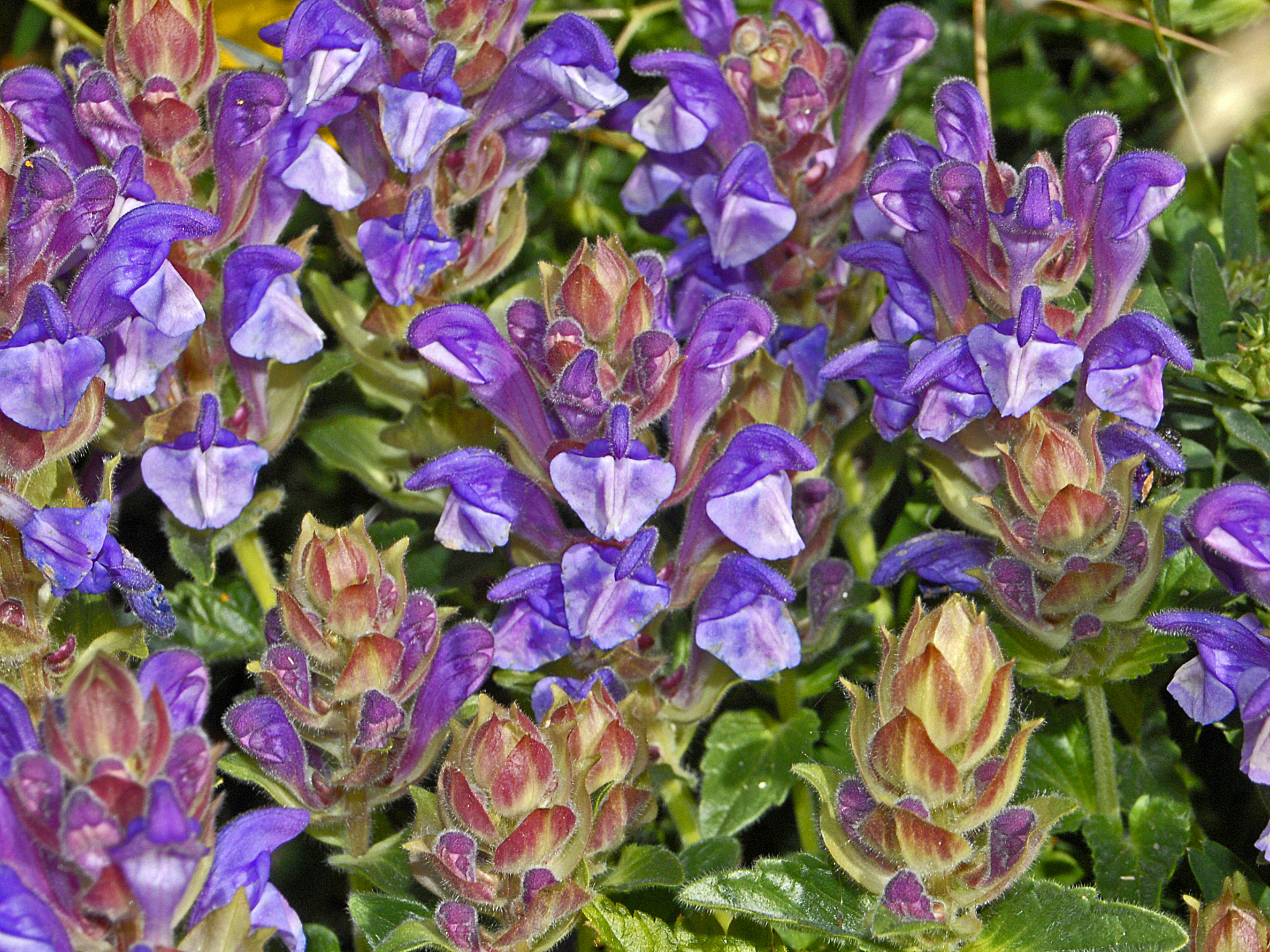 Flowers of Scutellaria alpina at the Giardino Botanico Alpino Chanousia